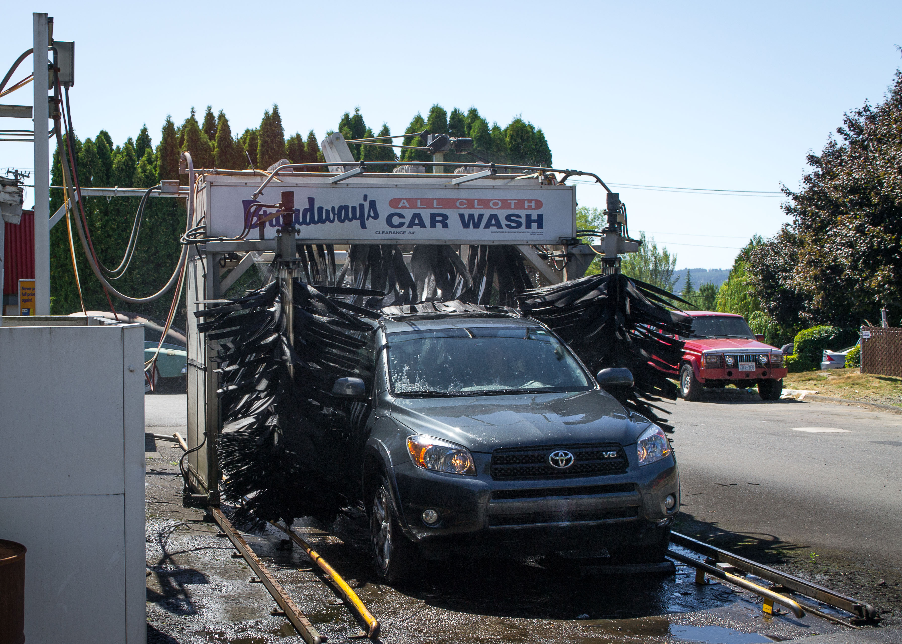 The Broadway's Car Wash at the Pacific Highway Shell Station in Tigard, Oregon